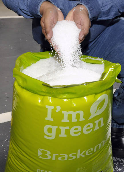 PE Verde - Braskem